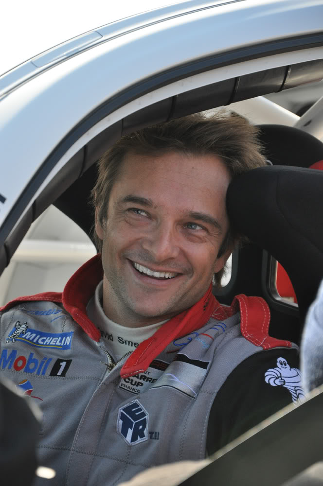 David Hallyday in Ledenon